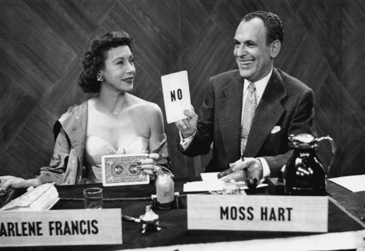 Photo of Arlene Francis and Moss Hart from an early television game show Answer Yes or No. Panelists tried answering various questions with one of the answer cards. Hart was the host of the program and is seen revealing Francis' answer to a question.